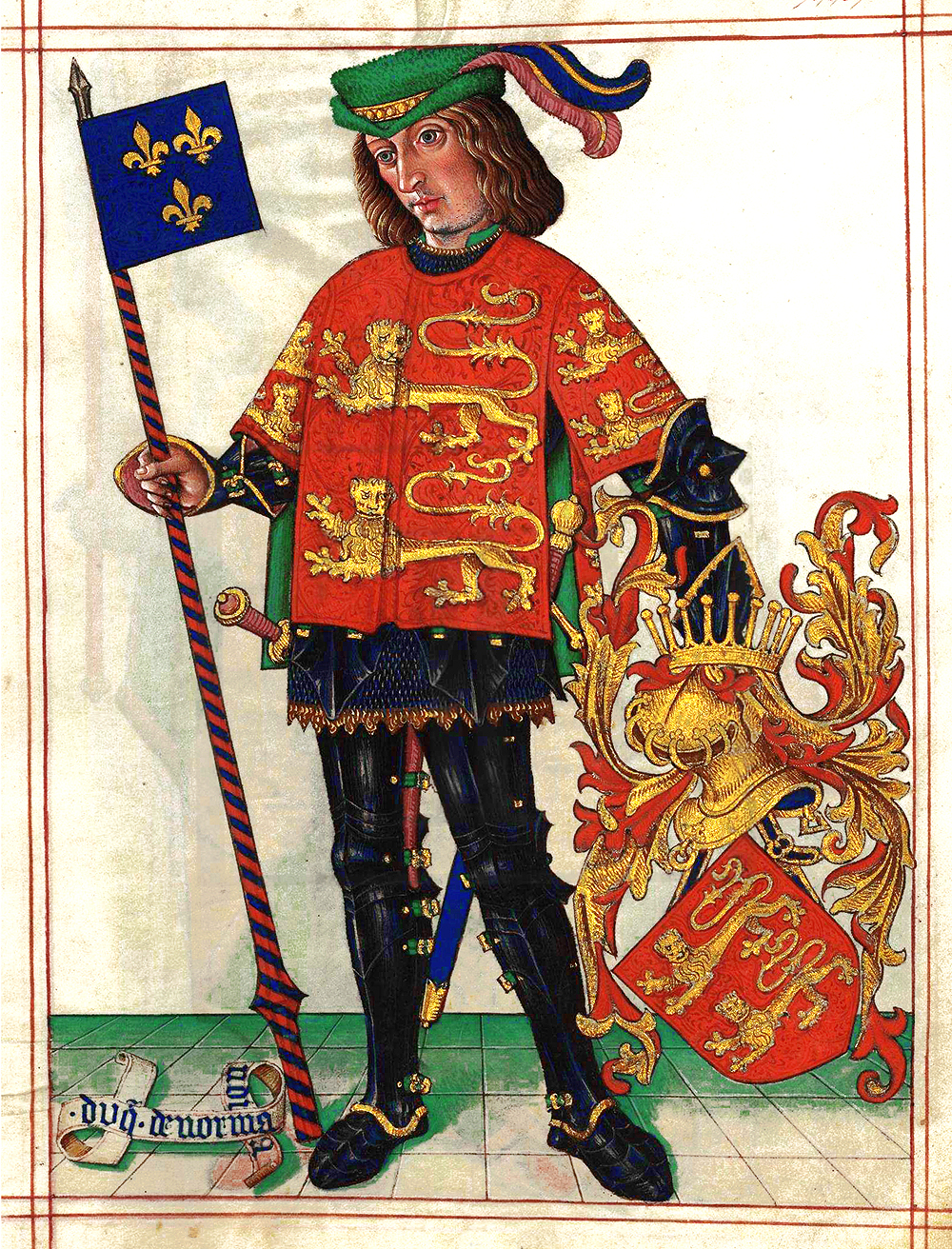 Duke of Normandy